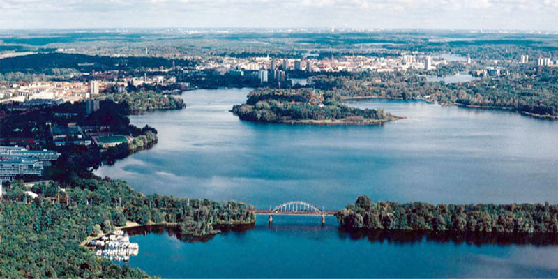 City of Potsdam in Germany, looking to northeast; northern part of lake Templiner See in foreground